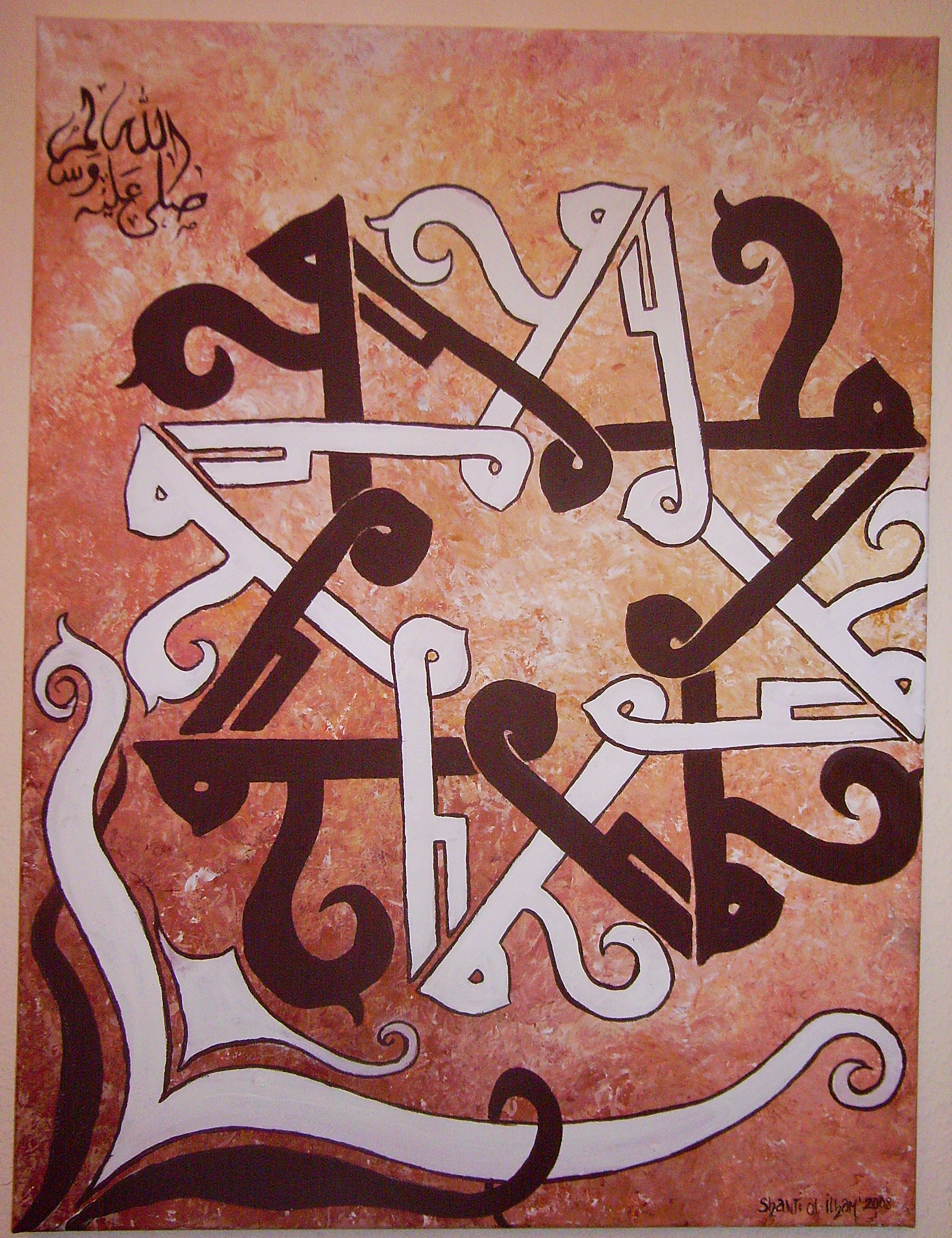 Acrylic Picture.Calligraphy "Muhammad" in form of a flower. handmade by the muslim artist Aischa Panning.